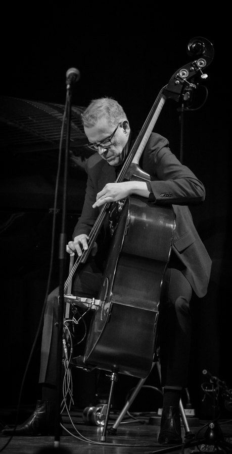 Hans Backenroth performs at Cosmopolite, Oslo in 2015. Lineup: Karin Krog (vocal), Scott Hamilton (tenor saxophone), Jan Lundgren (piano) Hans Backenroth (bass), Kristian Leth (drums)